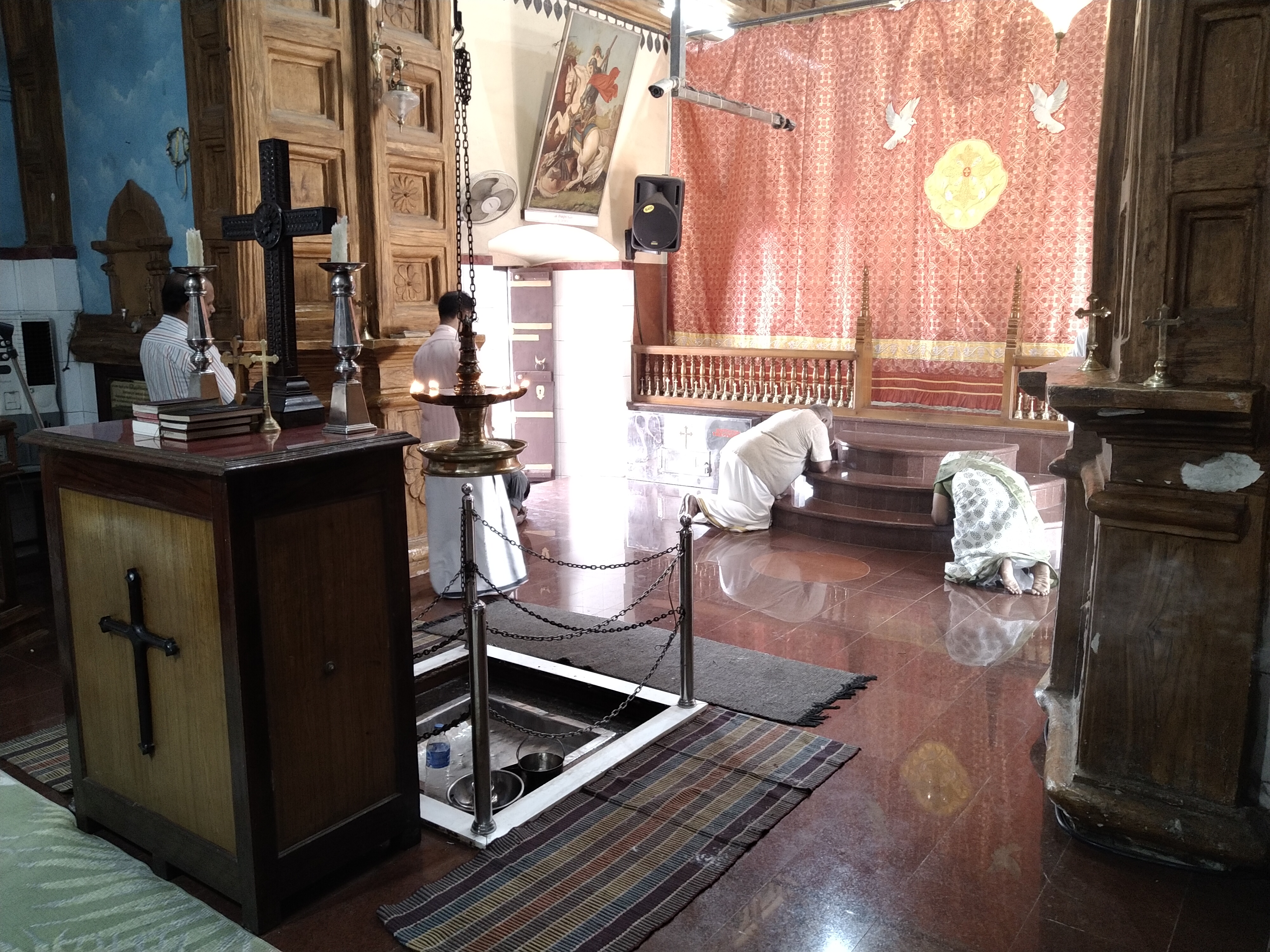 Inside St. Mary's Orthodox Cathedral, Arthat. It's said that a murder happened at the altar in this place as part of an invasion. Because of this, the new altar was moved a bit forward.